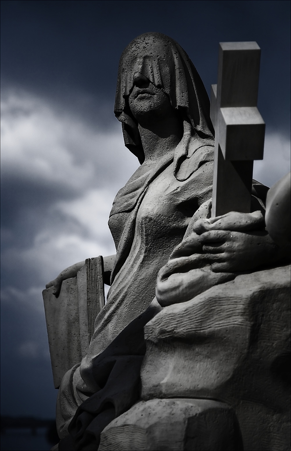 Justitia, Old Bridge of Heidelberg. Taken with a Canon 5D.